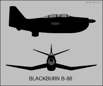 2-view silhouette of the Blackburn B-88 (Y.B.1)